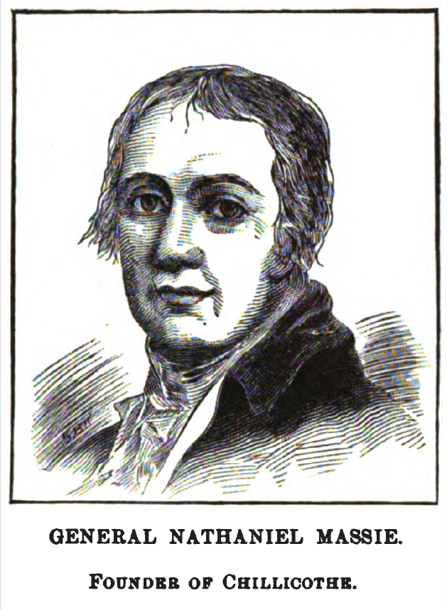 A Northwest Territory and Ohio political and military leader named Nathaniel Massie